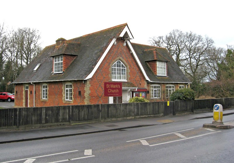 St. Mark's Church, Westfield Road. The church is part of the Parish of Woking (St. Peter). The church was built in 1922. 1757839.